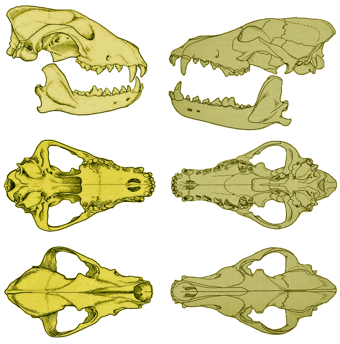 African wild dog and grey wolf skulls